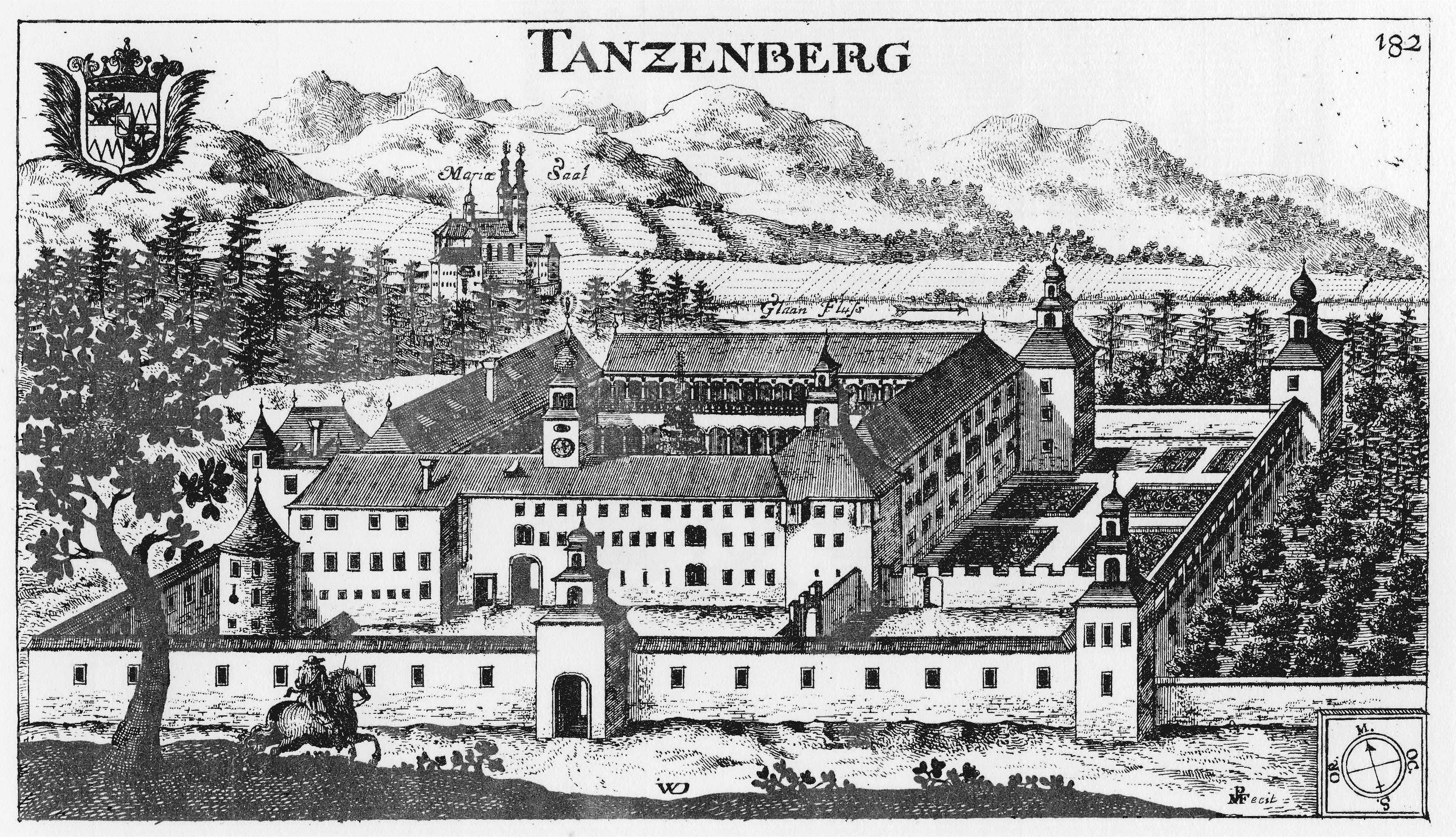 Castle Tanzenberg in Sankt Veit an der Glan / Carinthia / Austria / European Union.